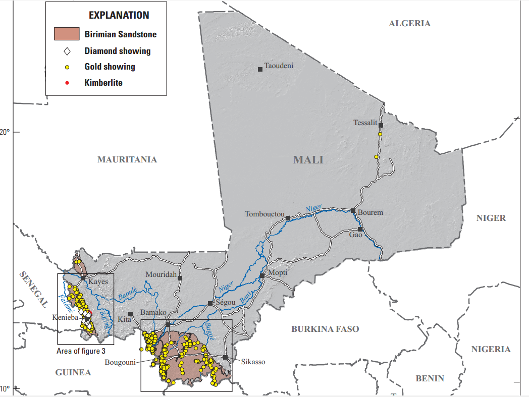 USGS geologic map Mali's Birimian